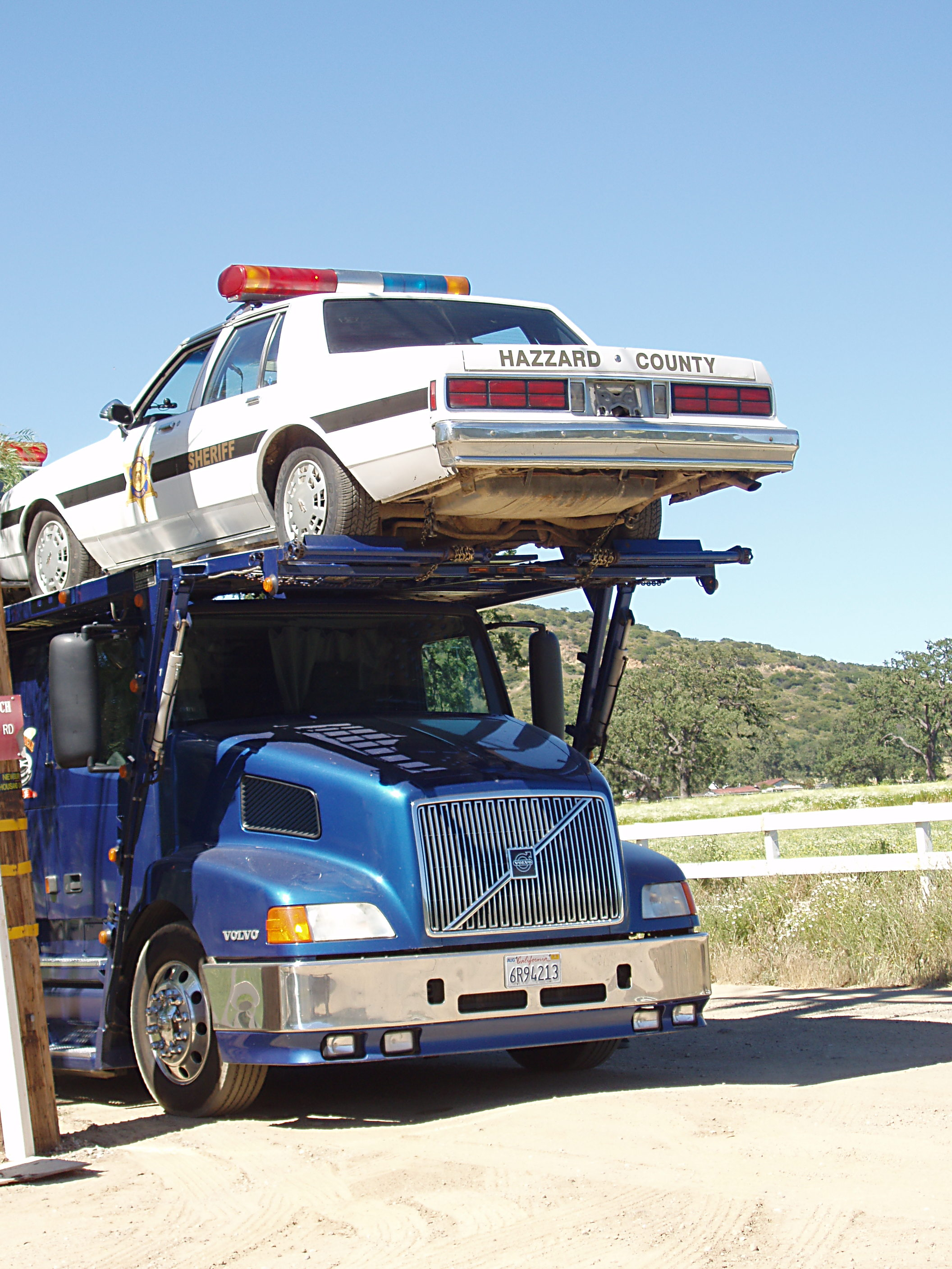 Sheriff's car from the 2005 Dukes of Hazzard movie at the shooting location off Potrero Road in Thousand Oaks. Photo by Richard E. Ellis